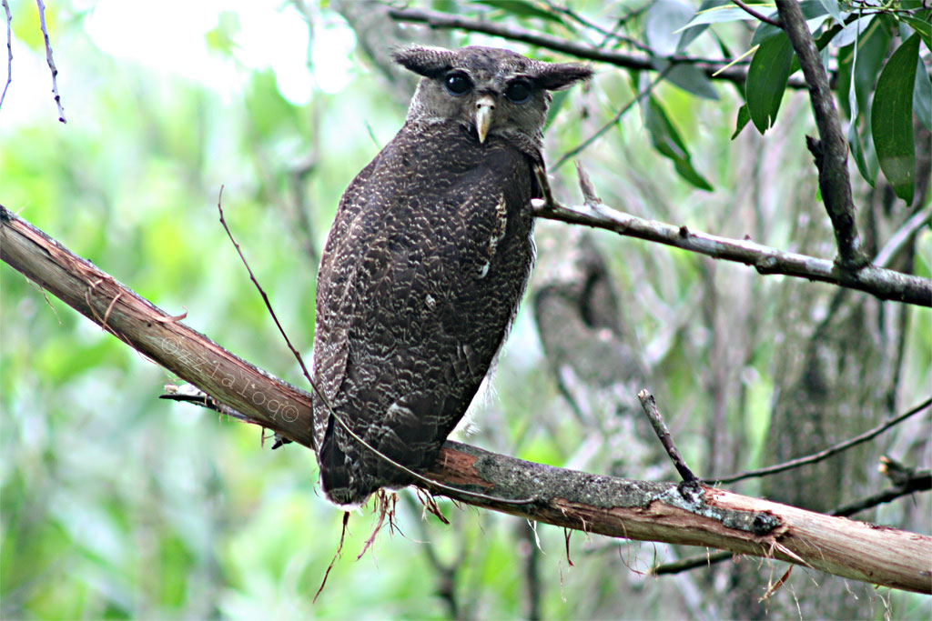 Barred Eagle Owl Bubo sumatranus, Malaysia